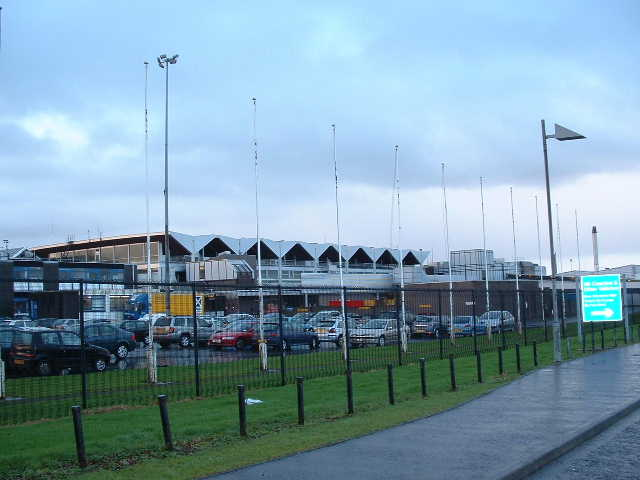 Belfast International Airport. Looking SW at the main terminal building.